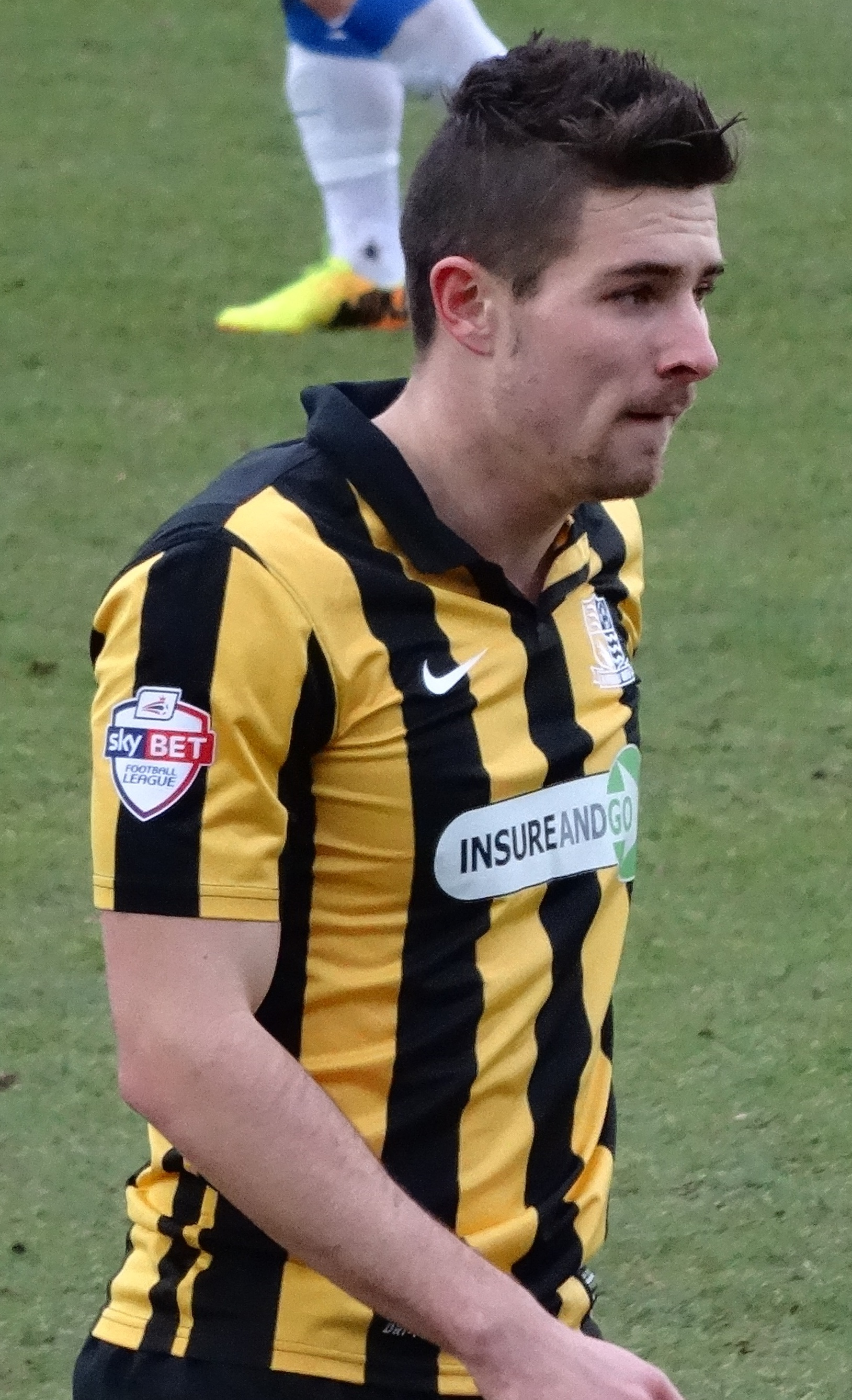 Ryan Leonard.